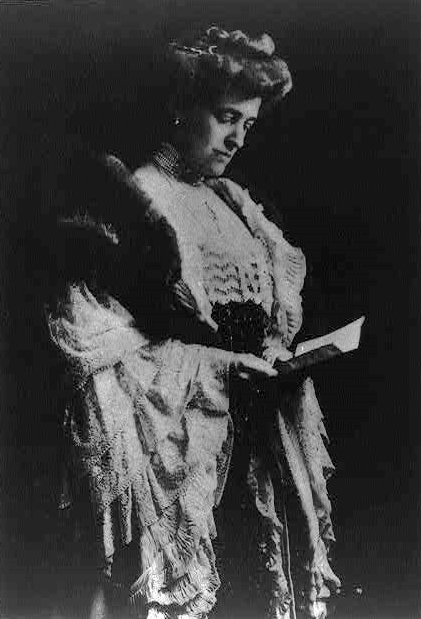 American novelist Edith Wharton (1862–1937)